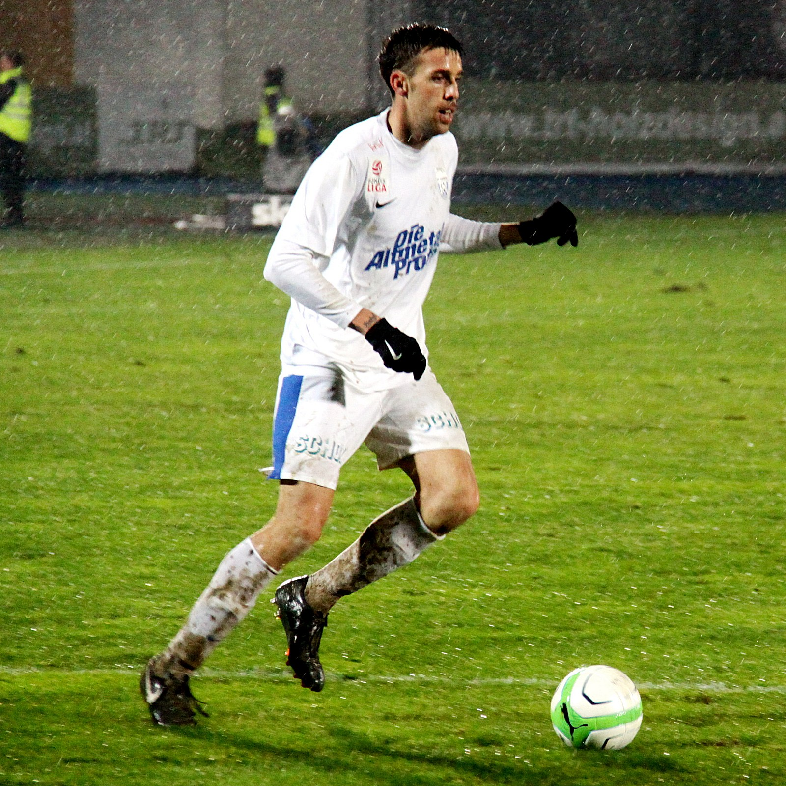 Austrian Football Bundesliga: SC Wiener Neustadt vs. SV Grödig (0:2) at 2013-11-23 in the Stadion Wiener Neustadt. – The photo shows Tomás Esteban Correa Miranda (SV Grödig).